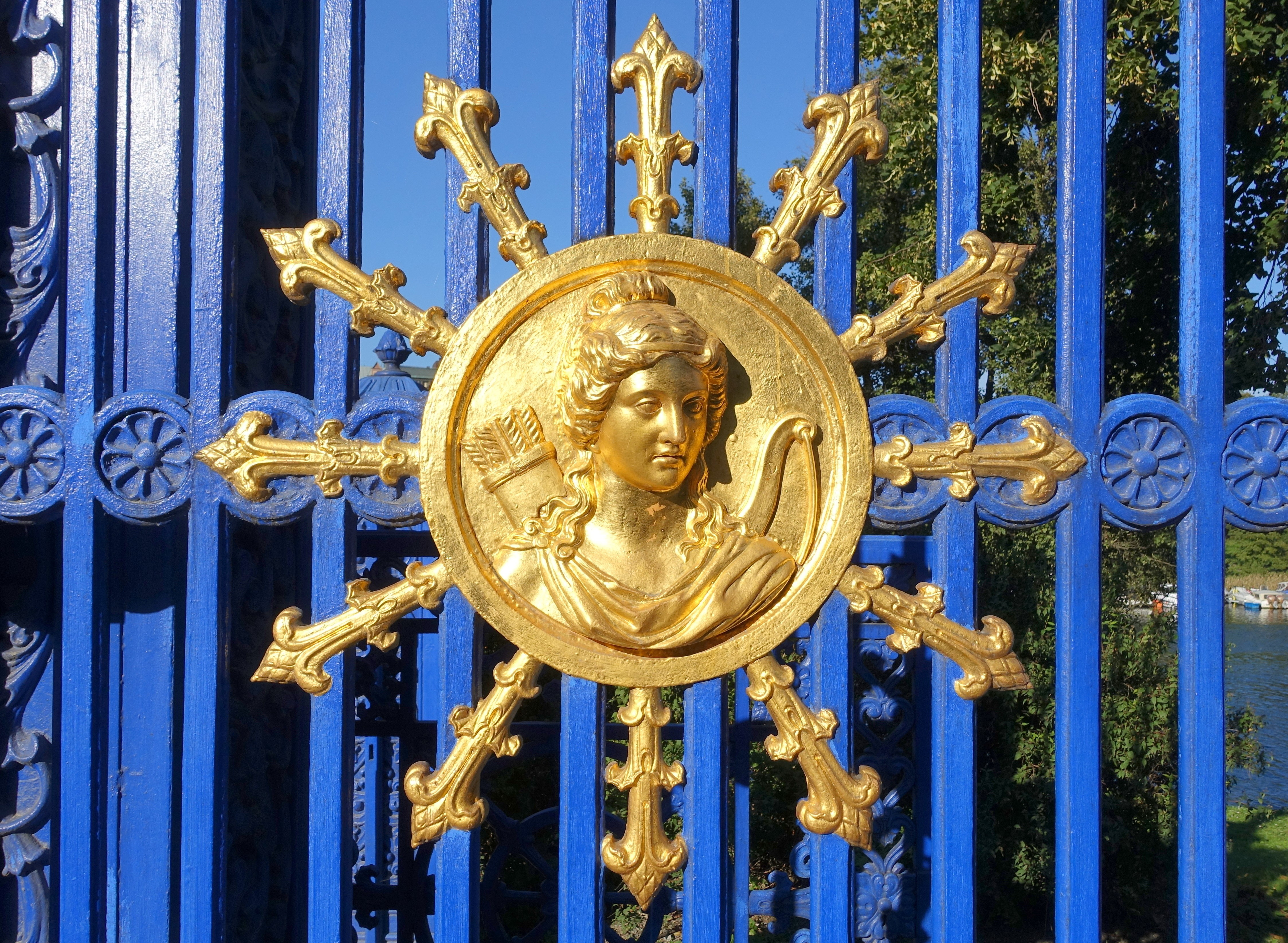 Blå porten - Stockholm, Sweden.